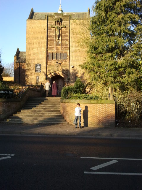 St. Eadwards, Macclesfield